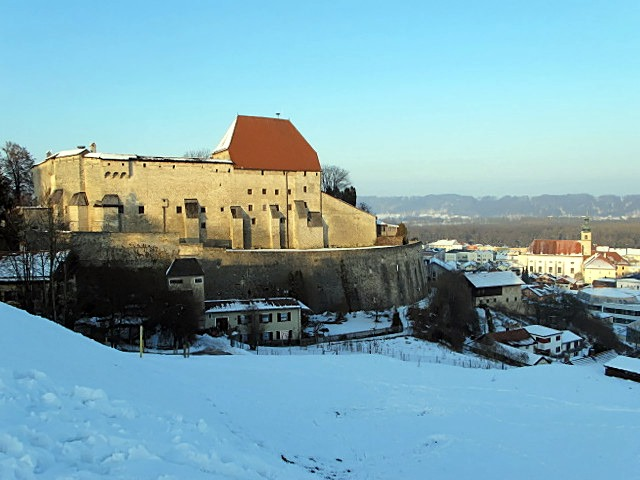 Tittmoning, Castle and City